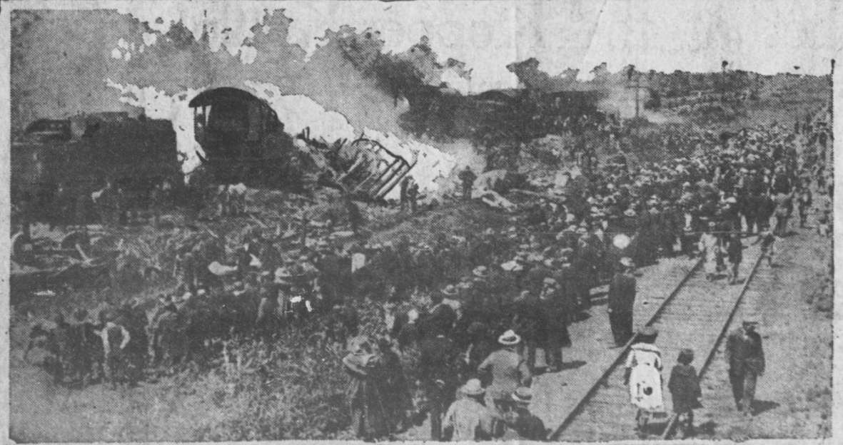 Train wreck at Hammond Circus Train Wreck, at Hammond, Indiana June 22, 1918. East Oregonian Newspaper caption "Close 100 Hagenbach-Wallace people died when their sleeping car train was run into near Gary, Ind., by a train of empty pullmans returning at high speeds from the east. The photo shows the wreckage under which the performers were buried and burned to death"